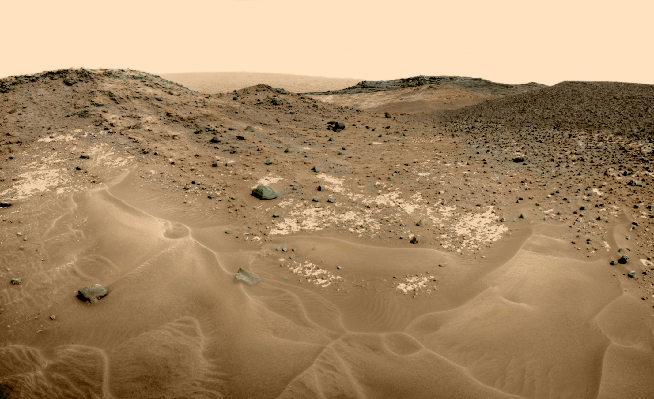 An attempt at colorizing a NavCam mosaic. Colors are a bit garish, though. Image Credit: NASA / JPL / MSSS / Justin Cowart